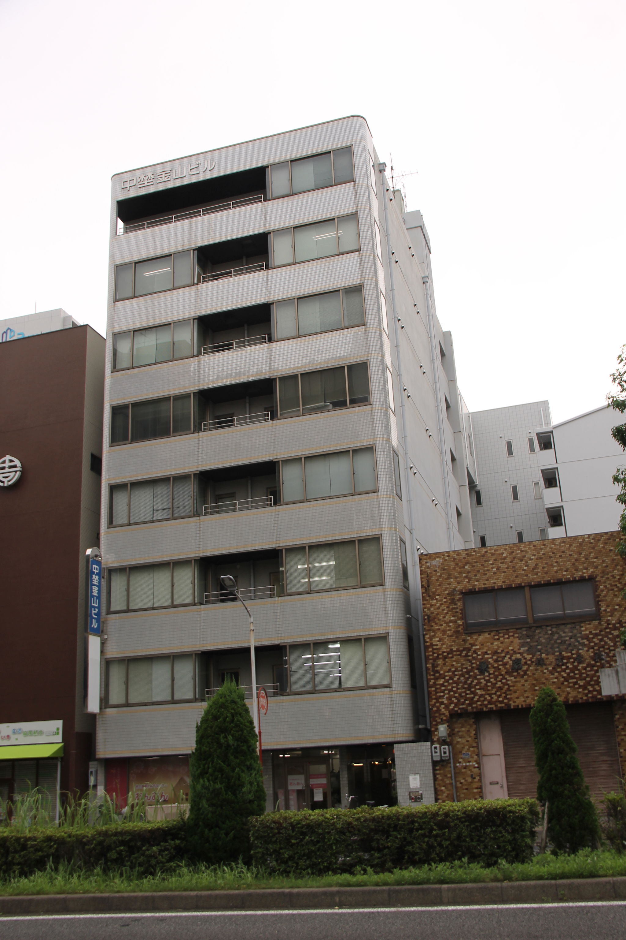 Chuya Kanayama Building located in Iseyama, Central Ward, Nagoya City, Aichi Prefecture